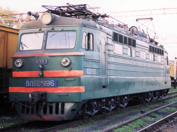 Soviet electric locomotive VL60pk (ВЛ60пк), c. 1960.